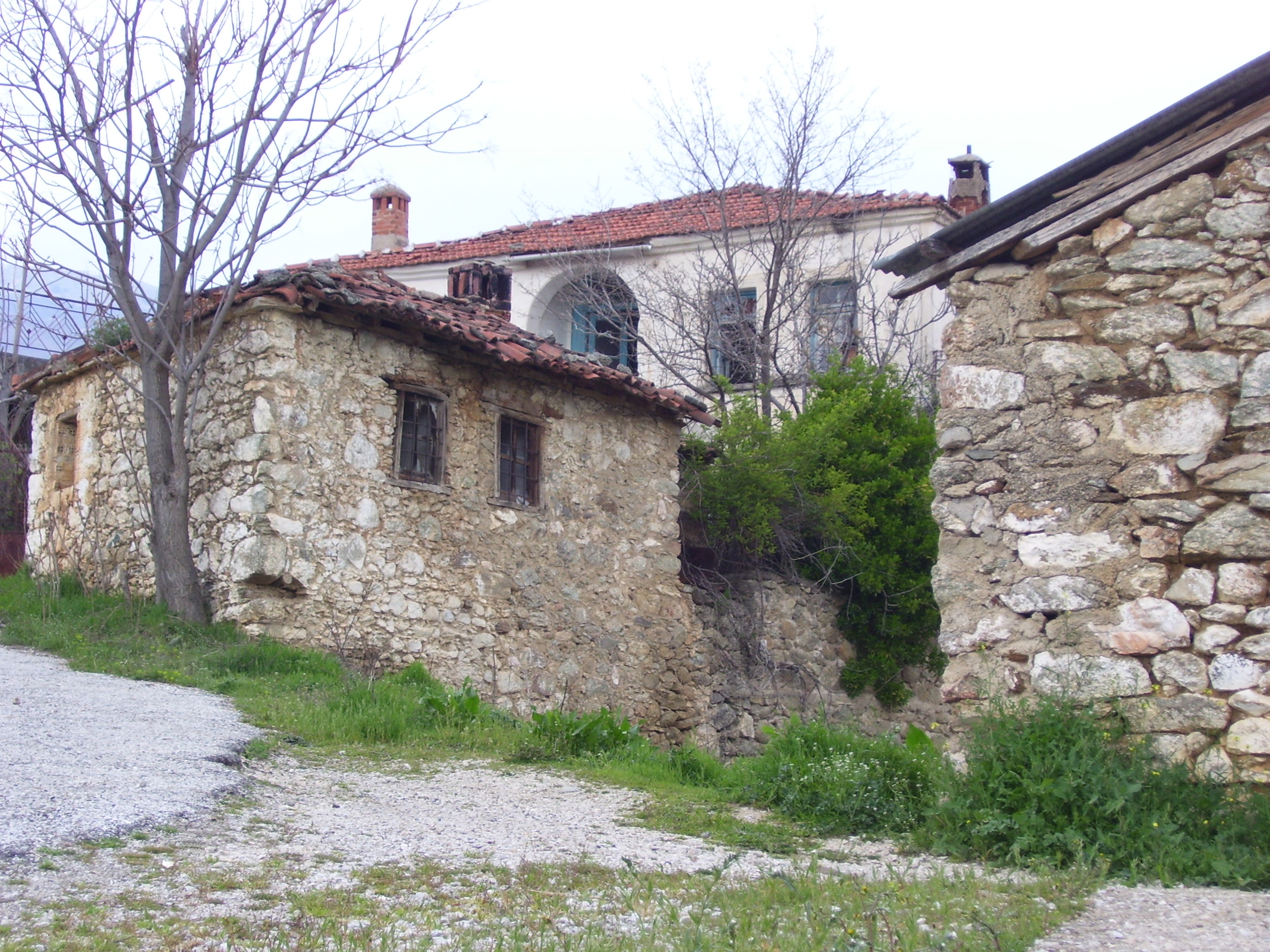 Melissotopos, Kastoria prefecture, Greece.